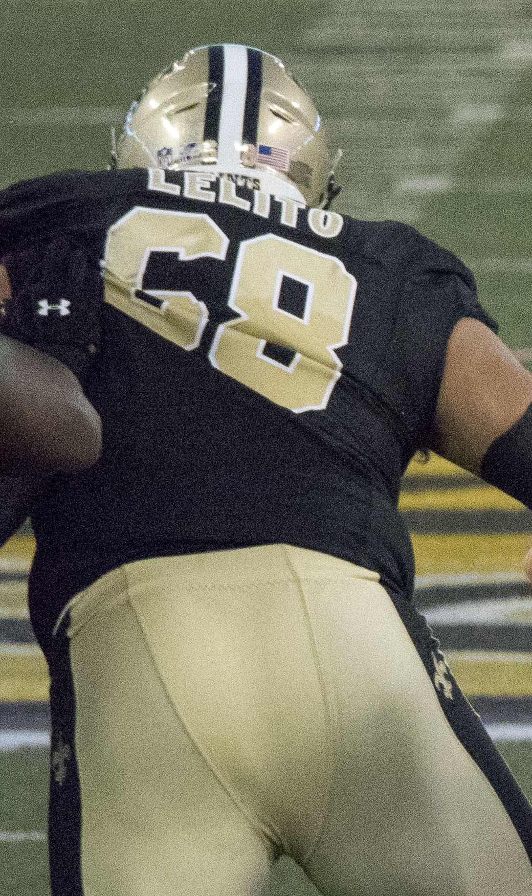 Saints at Ravens 8/13/15